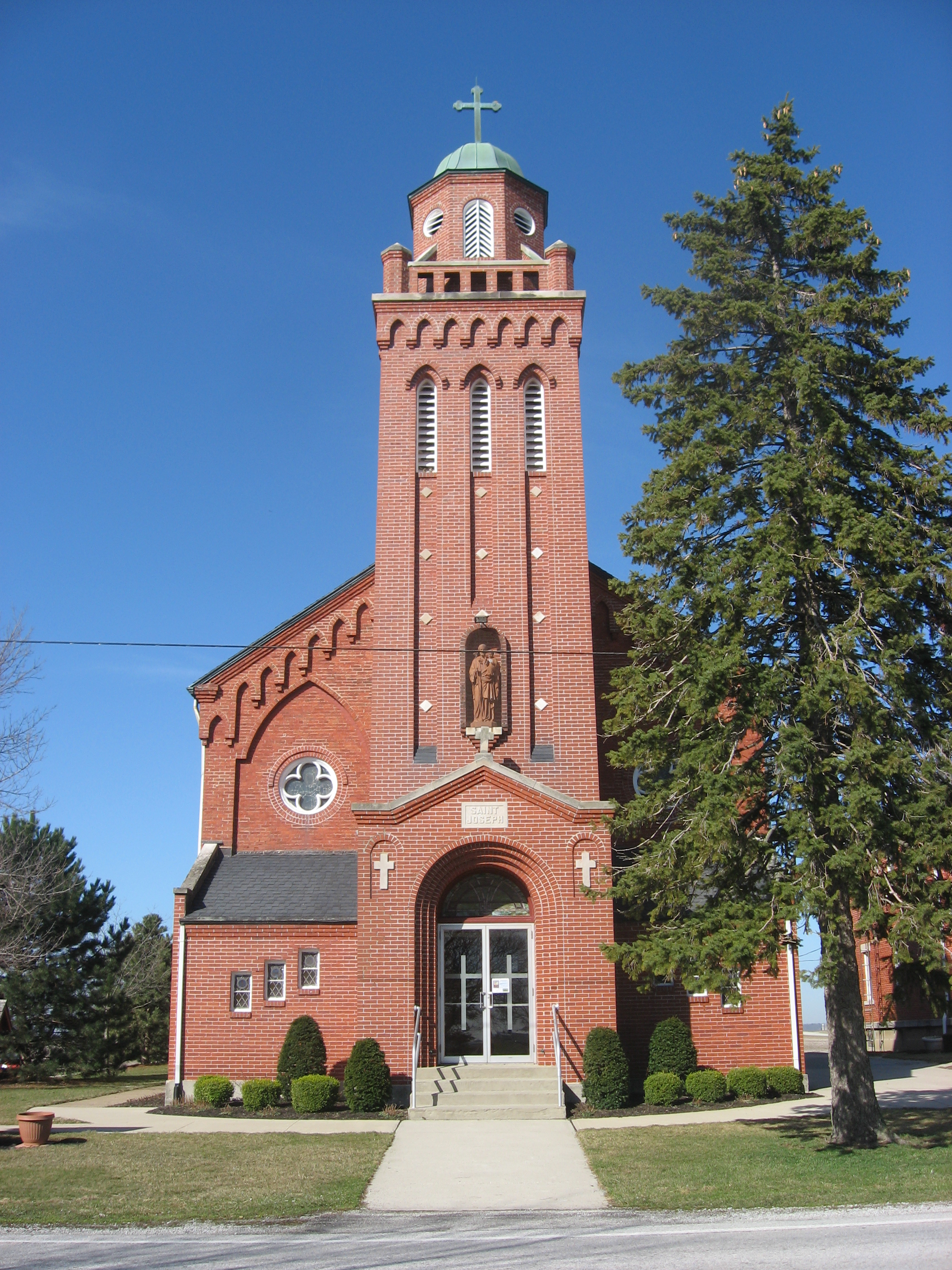 Front of St. Joseph's Catholic Church, located at the intersection of State Route 364 and Minster-Egypt Pike in Egypt, an unincorporated community west of Minster in Jackson Township, Auglaize County, Ohio, United States. The church (built in 1887) and its associated rectory (built in 1905) are listed together on the National Register of Historic Places as a part of the Cross-Tipped Churches of Ohio Thematic Resources.